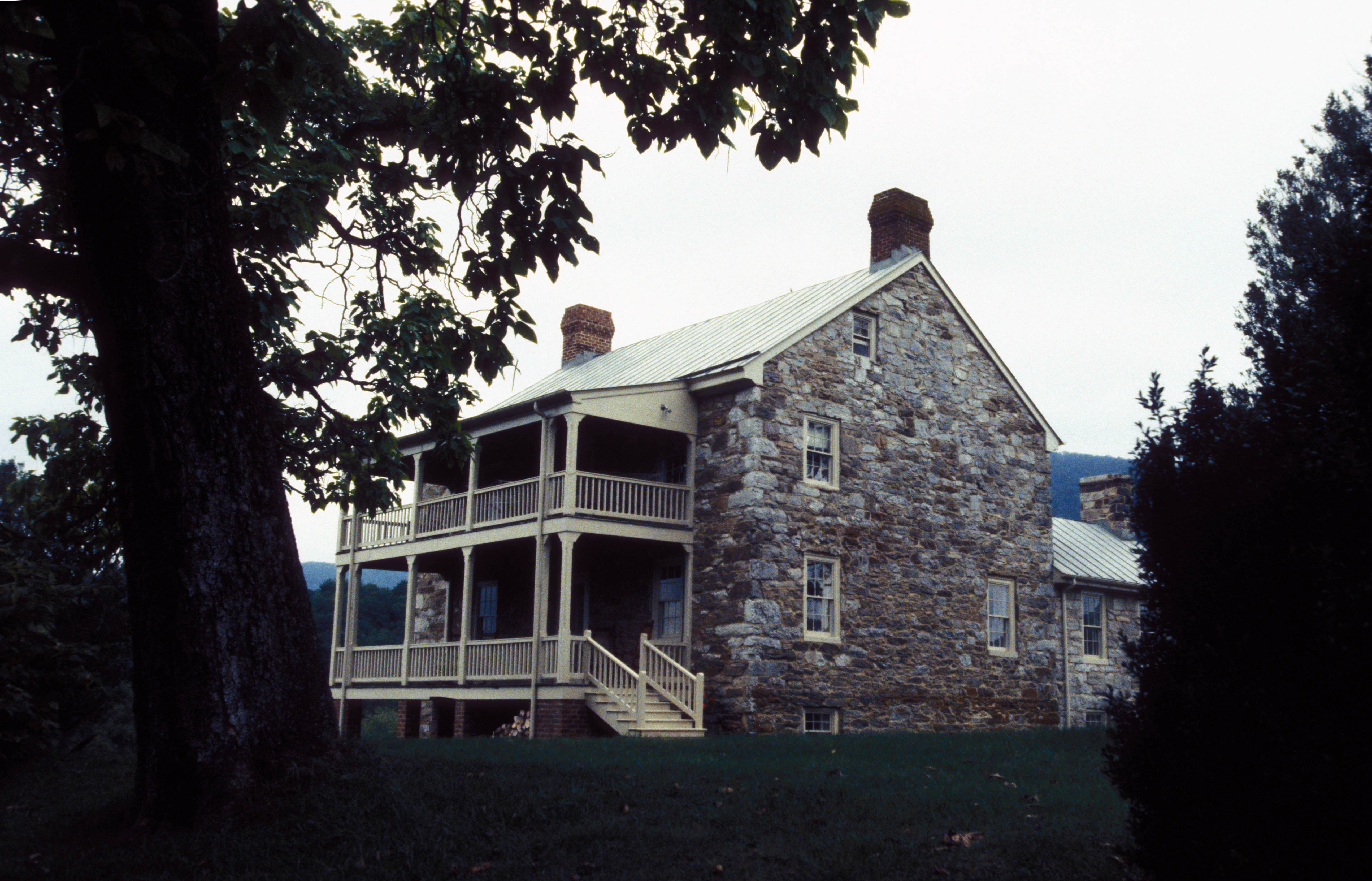 ROBERT SITLINGTON HOUSE IS ONE OF THE OLDEST HOUSES IN THE COUNTY BELIEVED TO HAVE BEEN ERECTED CIRCA 1790’S